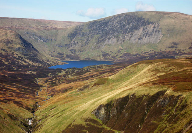 View of Loch Skene in the Moffat hills, Southern Uplands of Scotland showing the Tail Burn which feeds the Grey Mare's Tail waterfall